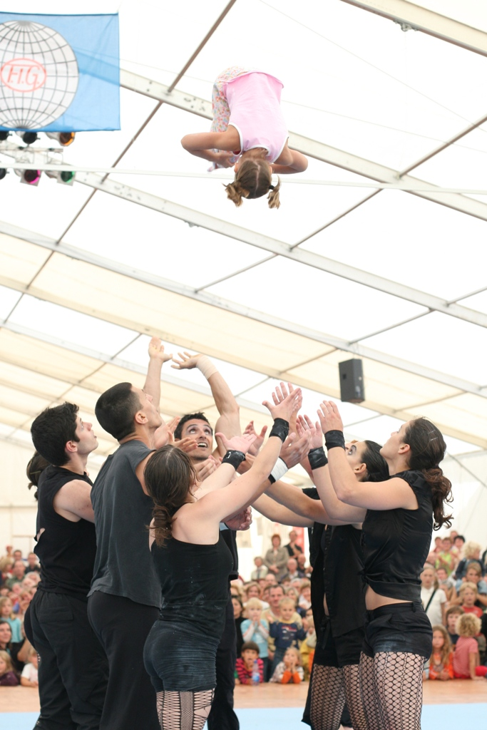 World-Gymnaestrada 2007, Street-Performance in Wolfurt/Vorarlberg/Austria